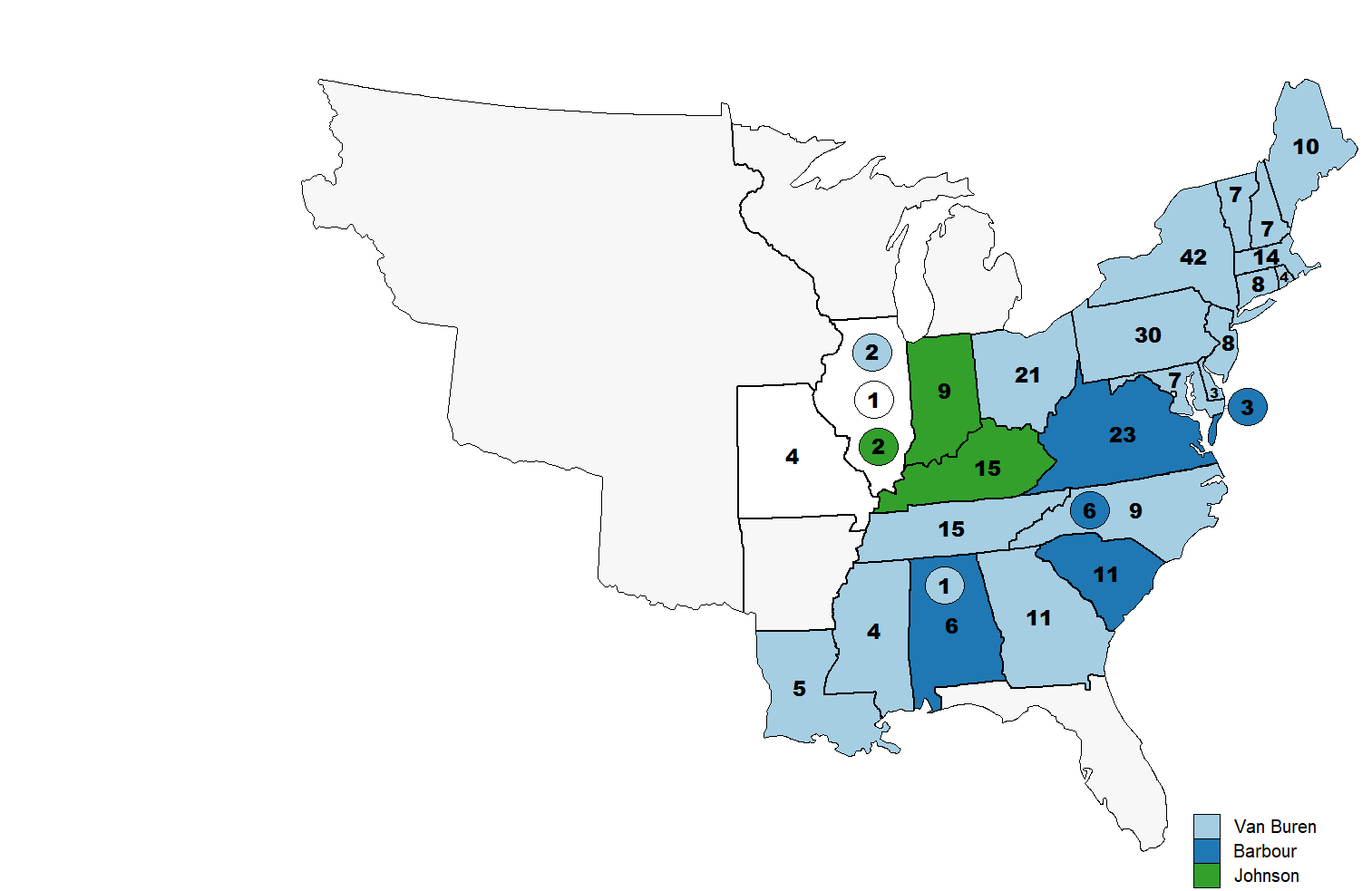 Results by State Delegation of the 1st Ballot for the 1832 Democratic Party Vice Presidential Nomination.